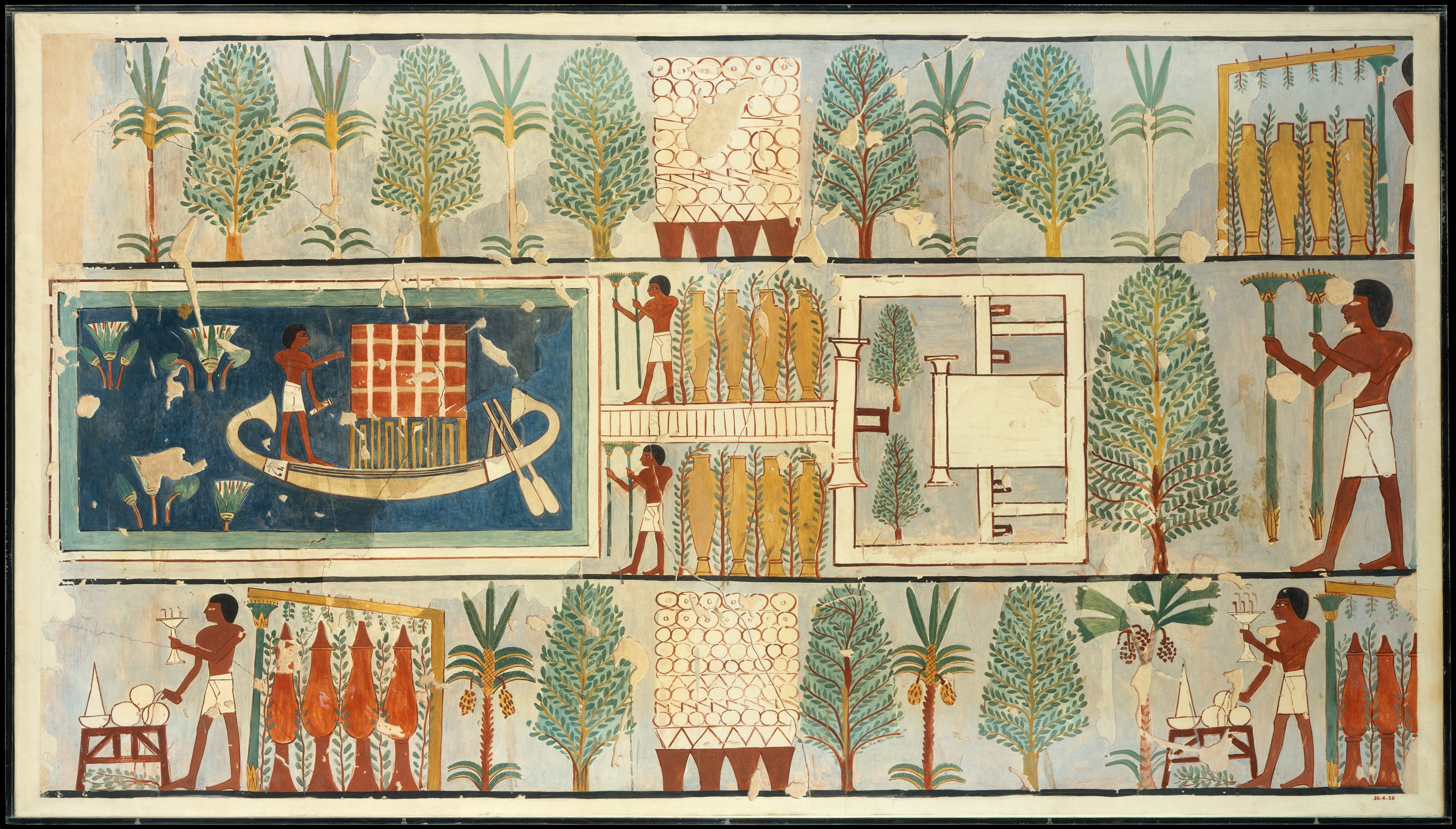 Facsimile, Minnakht (TT 87), garden